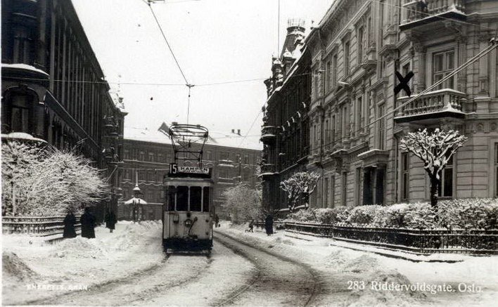 Oslo Sporveier HaWa tram 142 in Riddervolds gate on the Briskeby Line